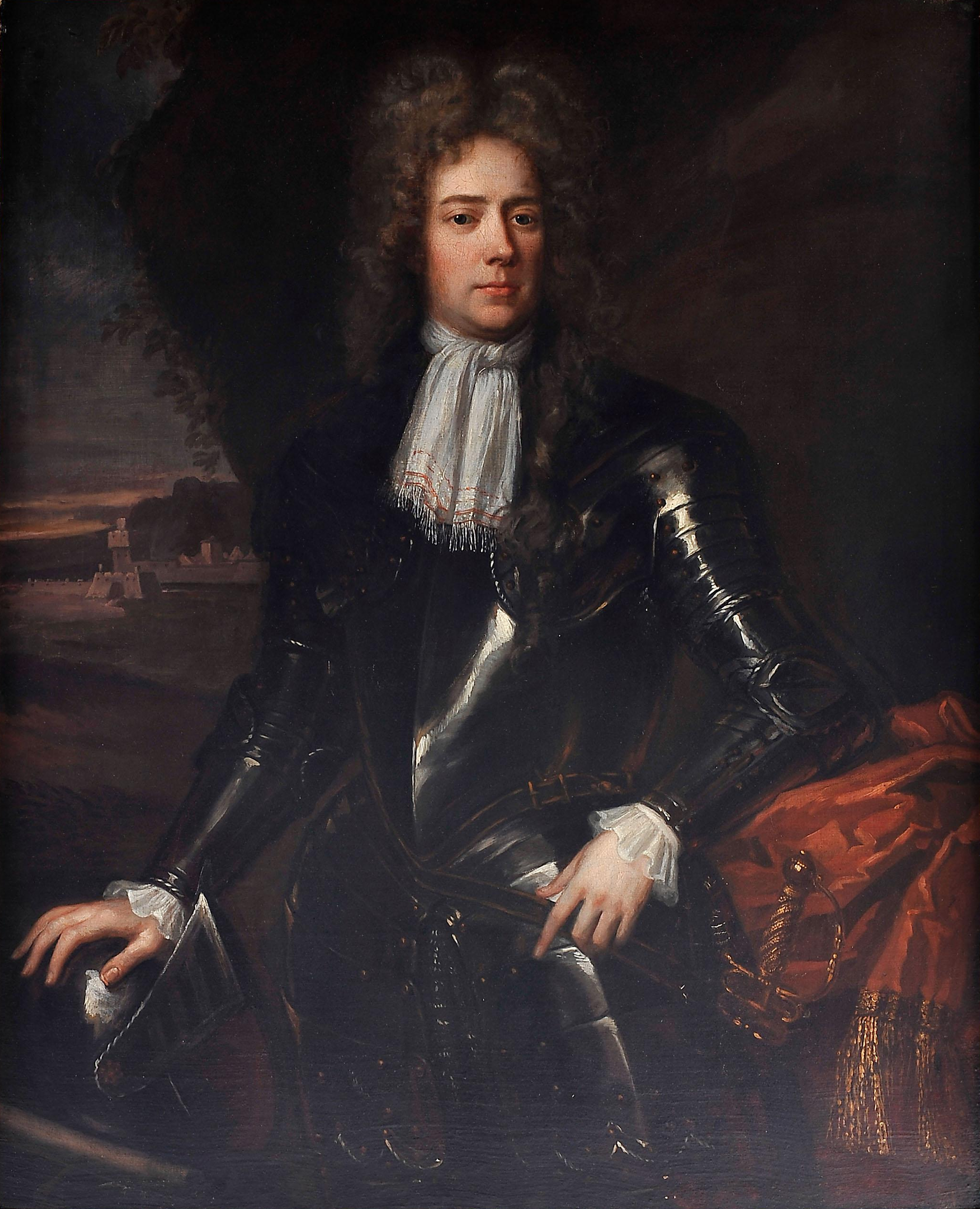 Portrait painting of August Philipp, Duke of Schleswig-Holstein-Sonderburg-Beck; 18th-century English school.